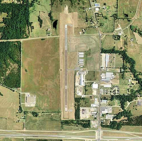 USGS digital orthophoto of Jones Field, an airport in Texas